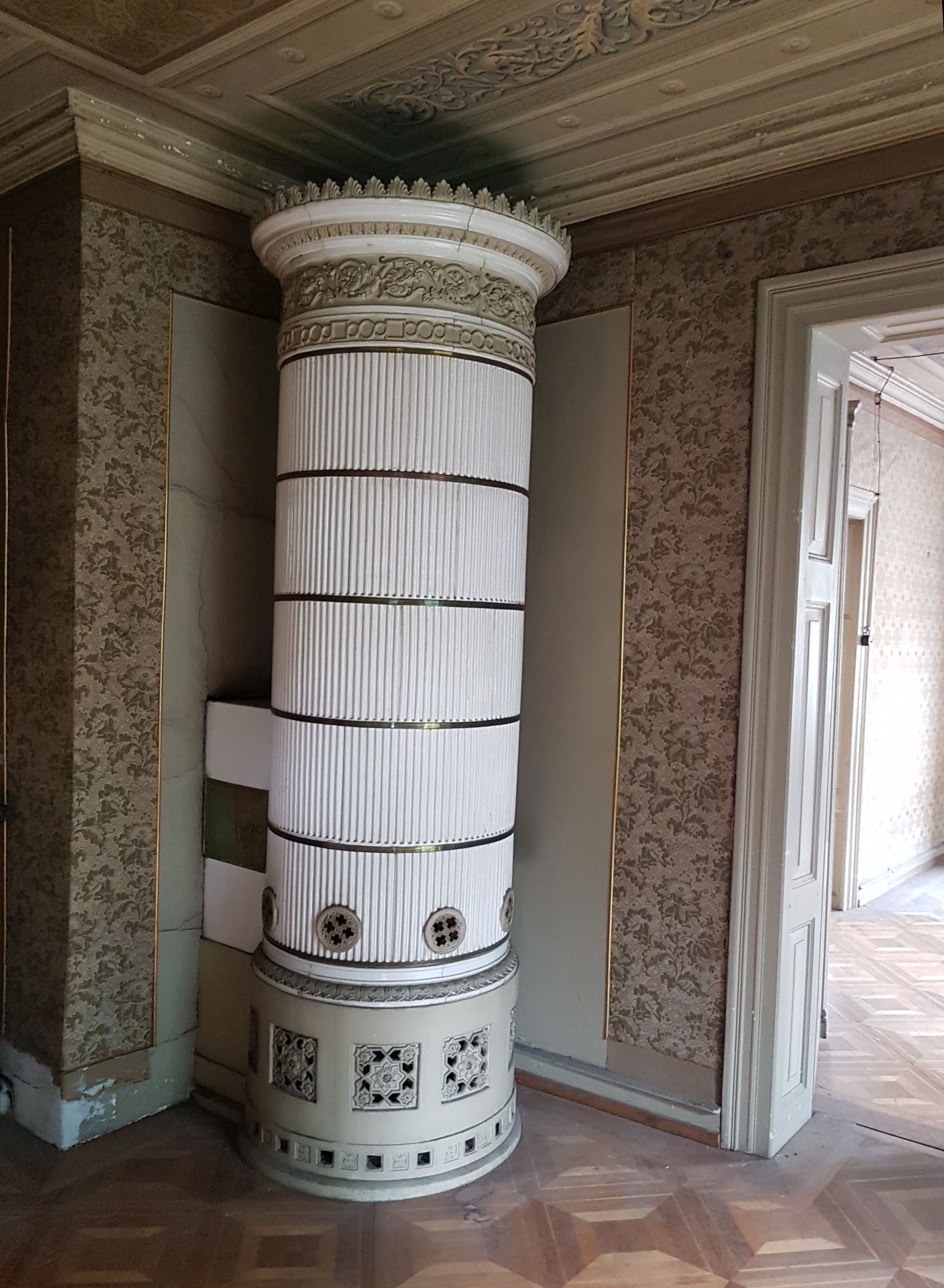 Heating stove in the Villa Ivan Rosenthal, Radetzkystraße No. 1 in Hohenems, Vorarlberg, Austria. Built in 1890, main building with hipped and cross-gabled roof, cube-shaped with klassizisierender entrance section, side wings, Wirtschaftstrakt with half-timbered.